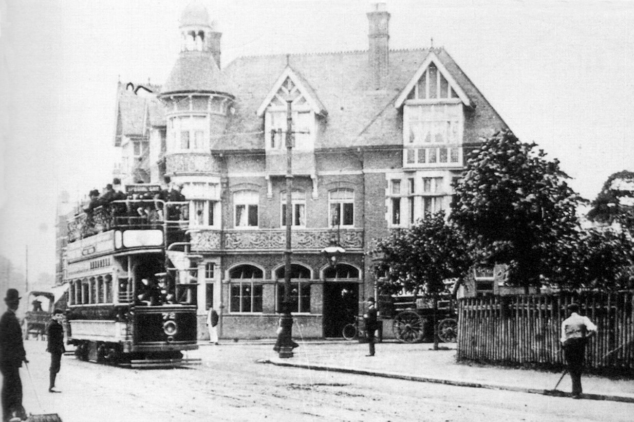 The Fox, Palmer's Green with tram 1907